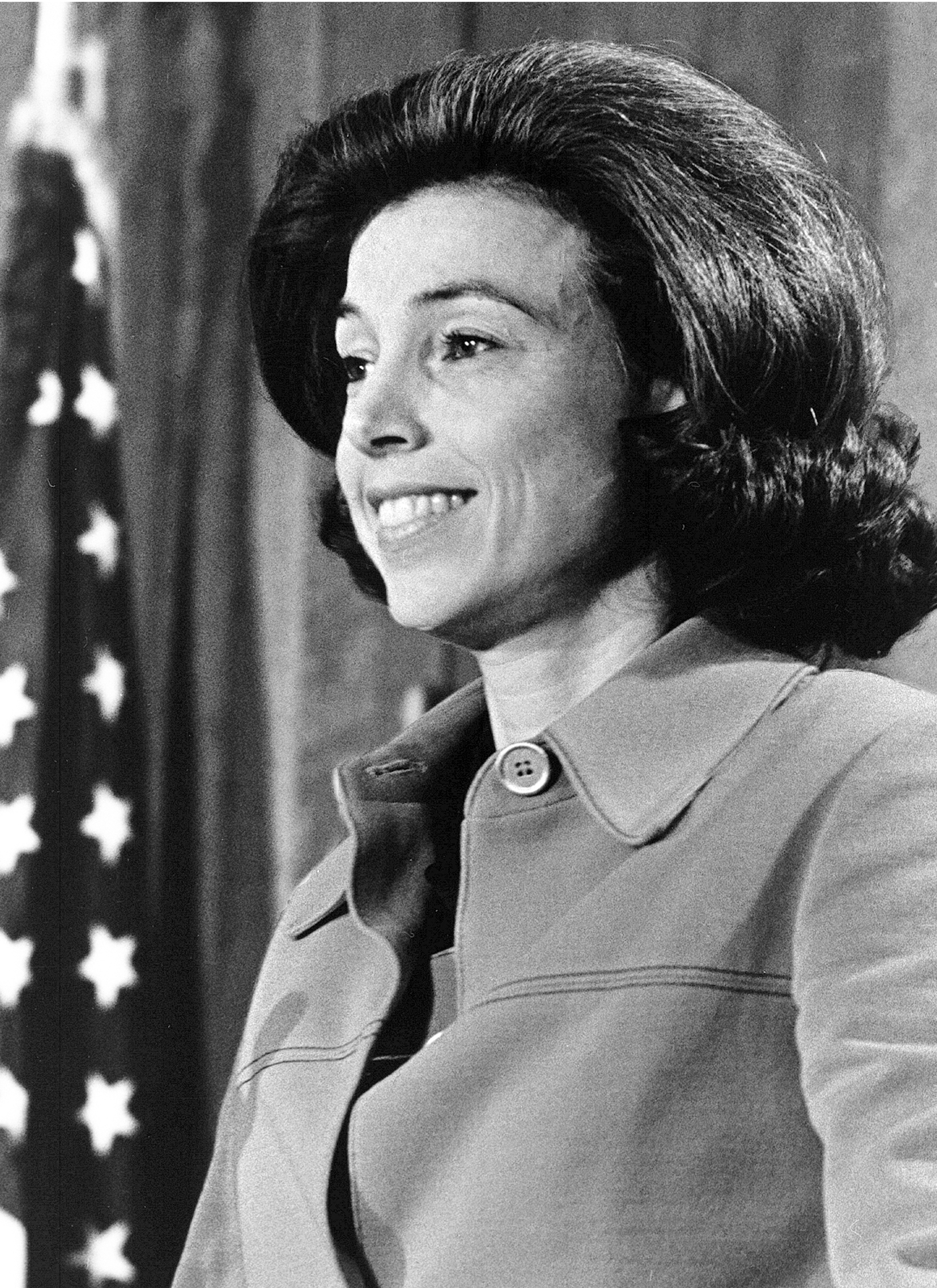 Official portrait of then-Secretary of Housing and Urban Development Carla Anderson Hills.